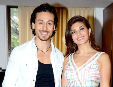 Tiger Shroff & Jacqueline Fernandez snapped at Promotions of 'A Flying Jatt' in August 2016